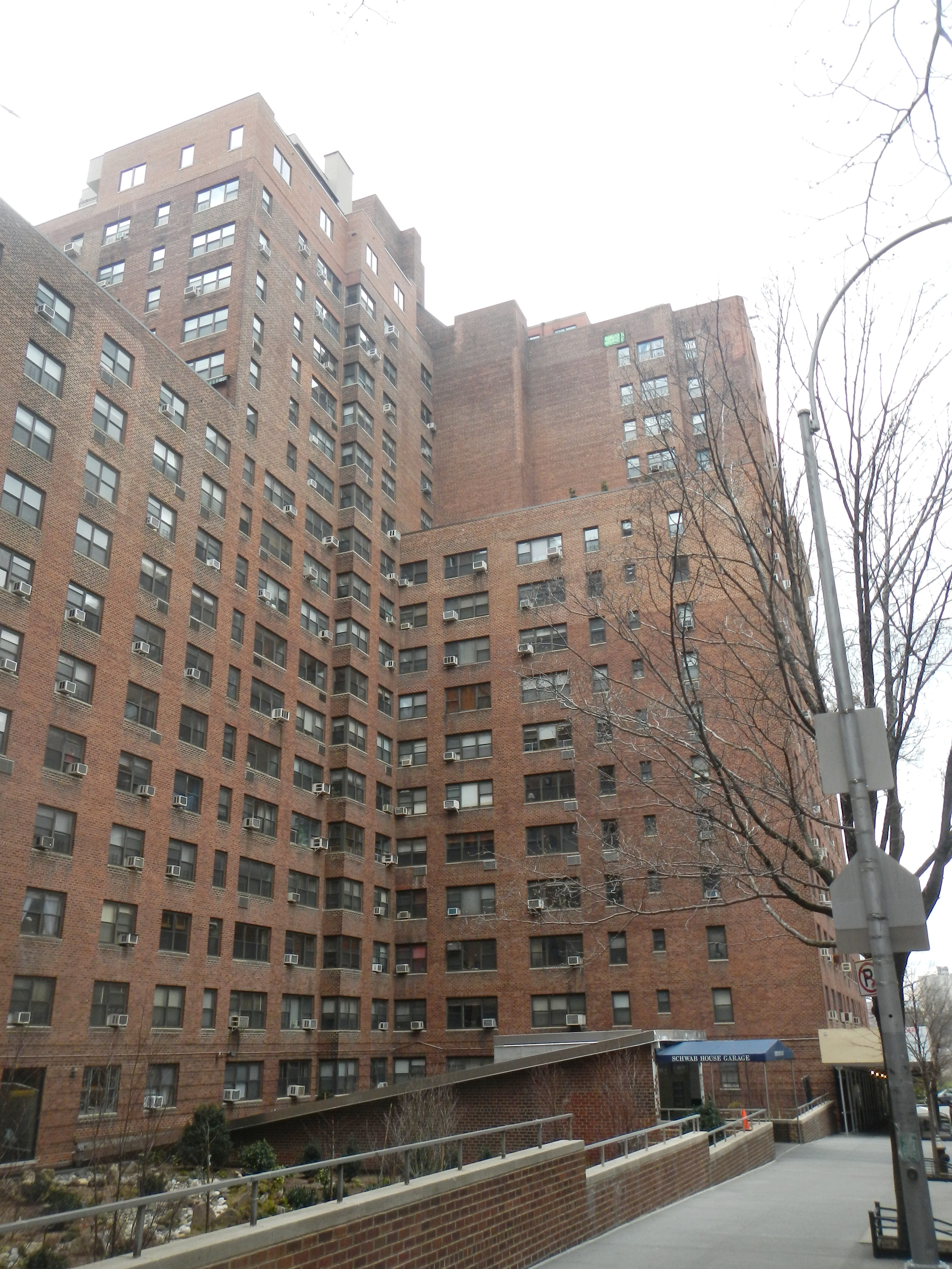 Looking west at apartment house that replaced Schwab House on a cloudy day.